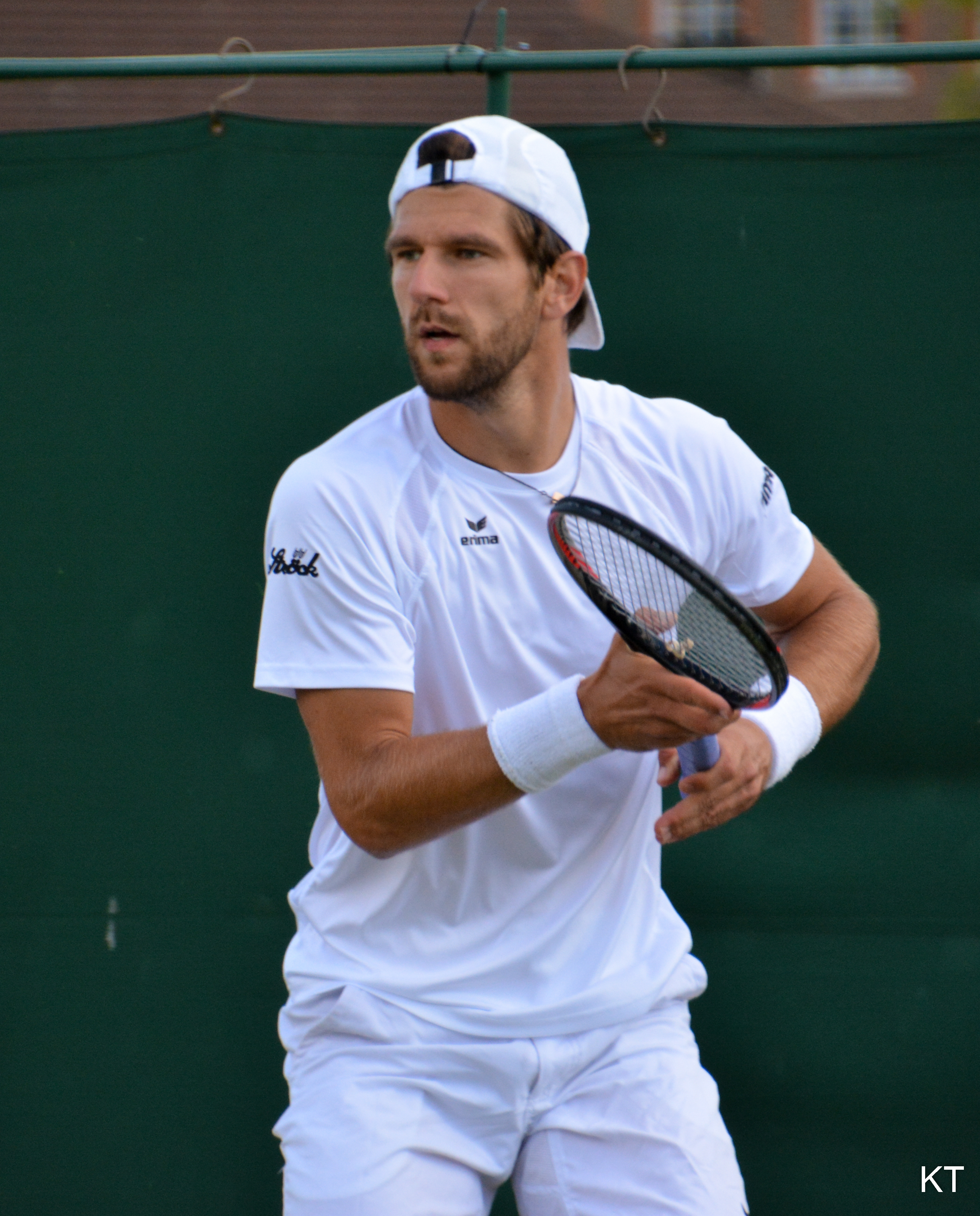 Day 1 of Wimbledon qualifying 2015.